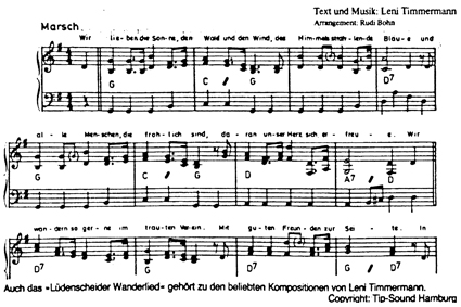 Score of Leni Timmermann's song "Marsch"